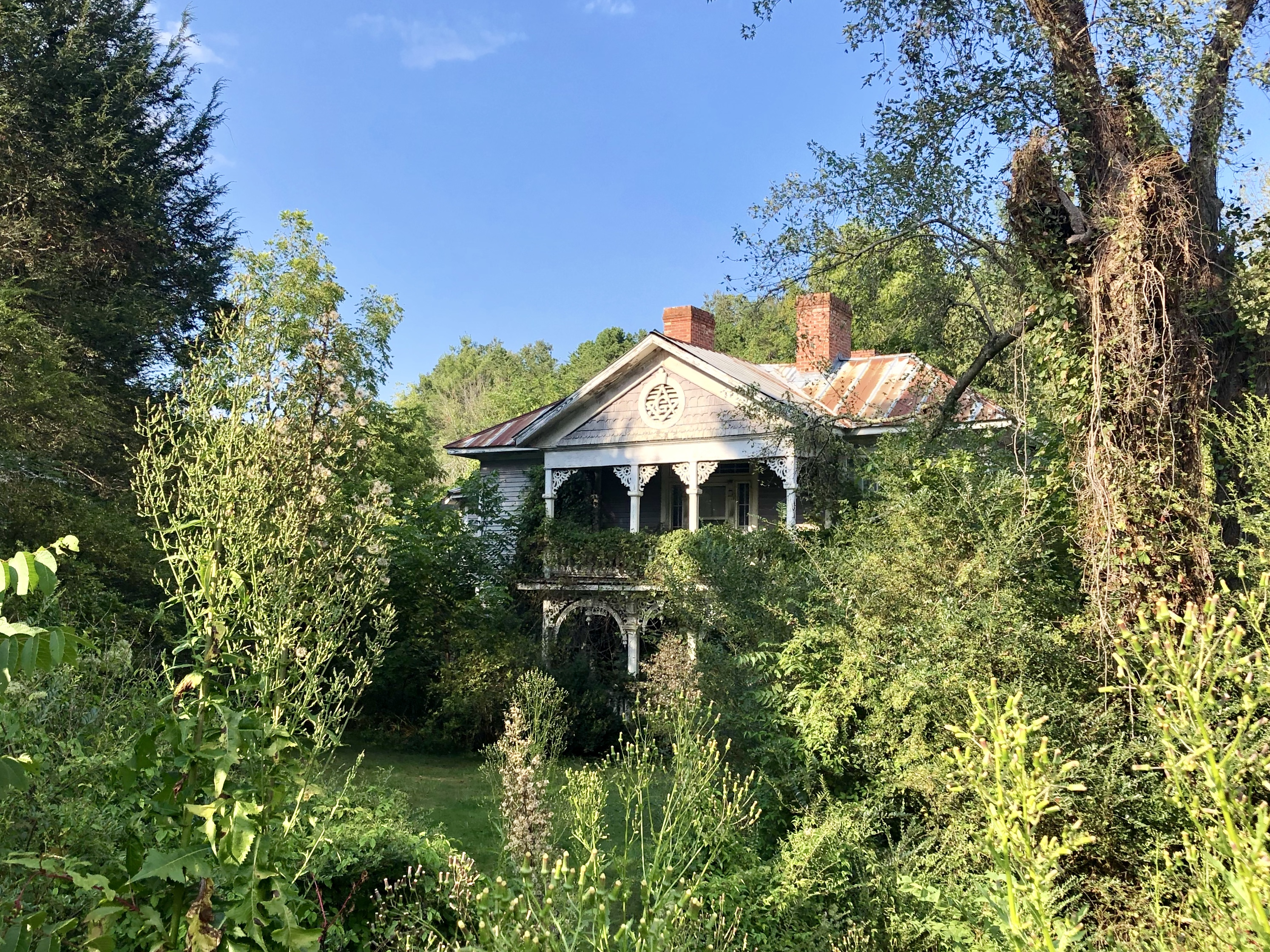 This is the Jeff White House, located off of NC Highway 213 near Petersburg, North Carolina. Constructed in the late 19th Century, the ornately detailed home features a masonic symbol on the gable roof vent over the two-story main porch, and was listed on the National Register of Historic Places in 1975.